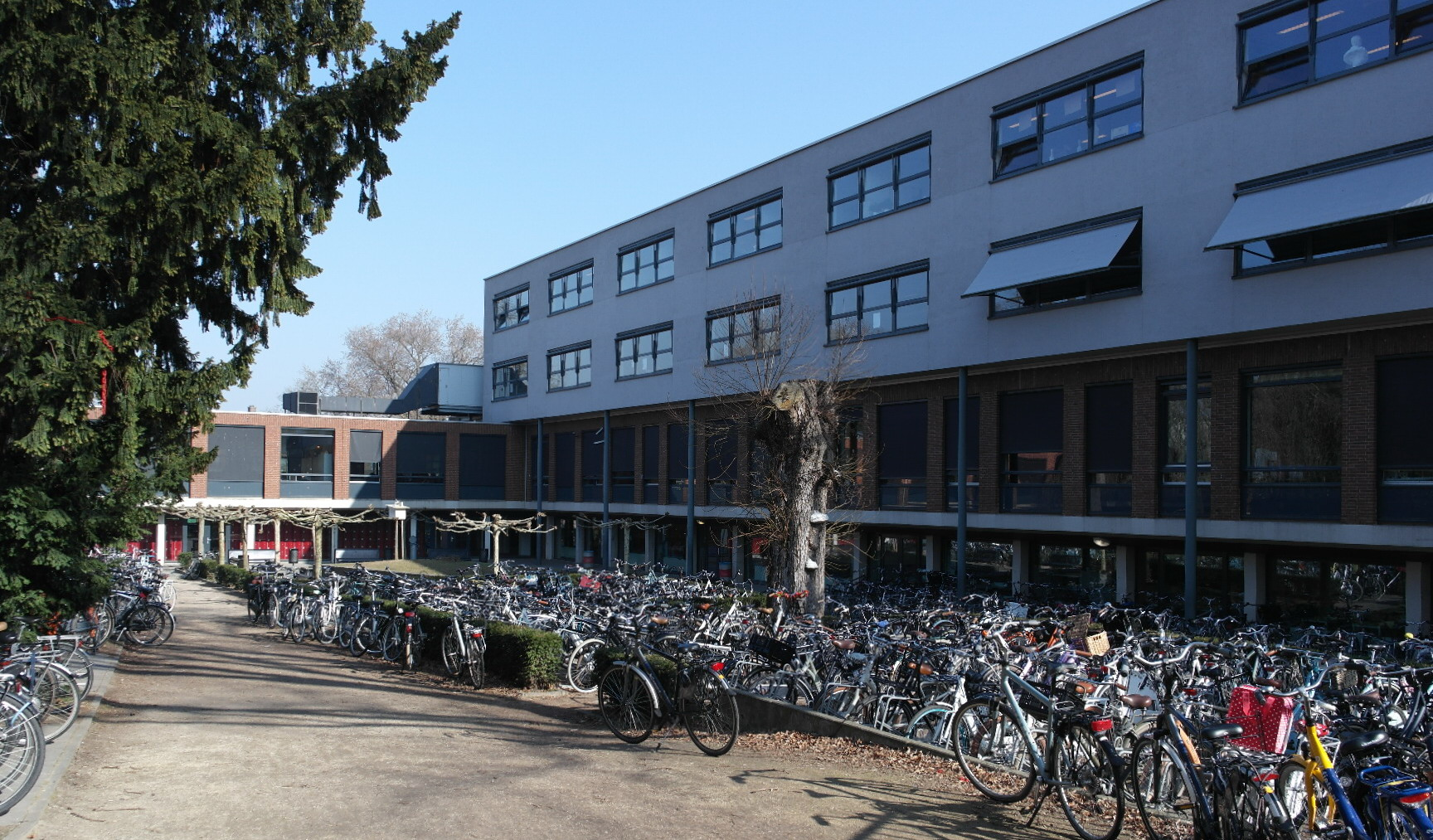 Maastricht, the Netherlands. View from Professor Pieter Willemsstraat of Sint-Maartenscollege, school for secundary education.